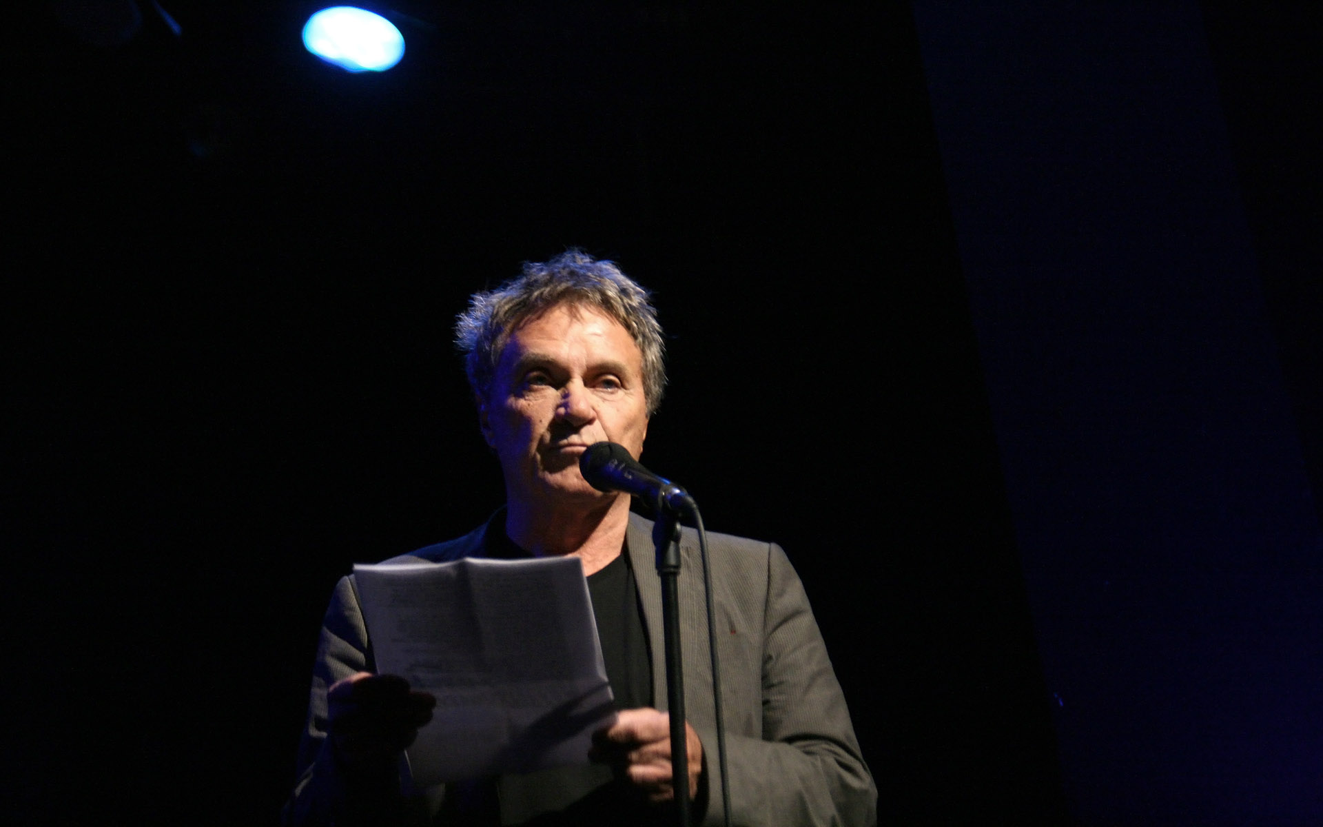 Austrian Cabaret Award (Porgy & Bess, Vienna).